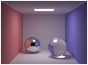 Gloss light Illuminates Example